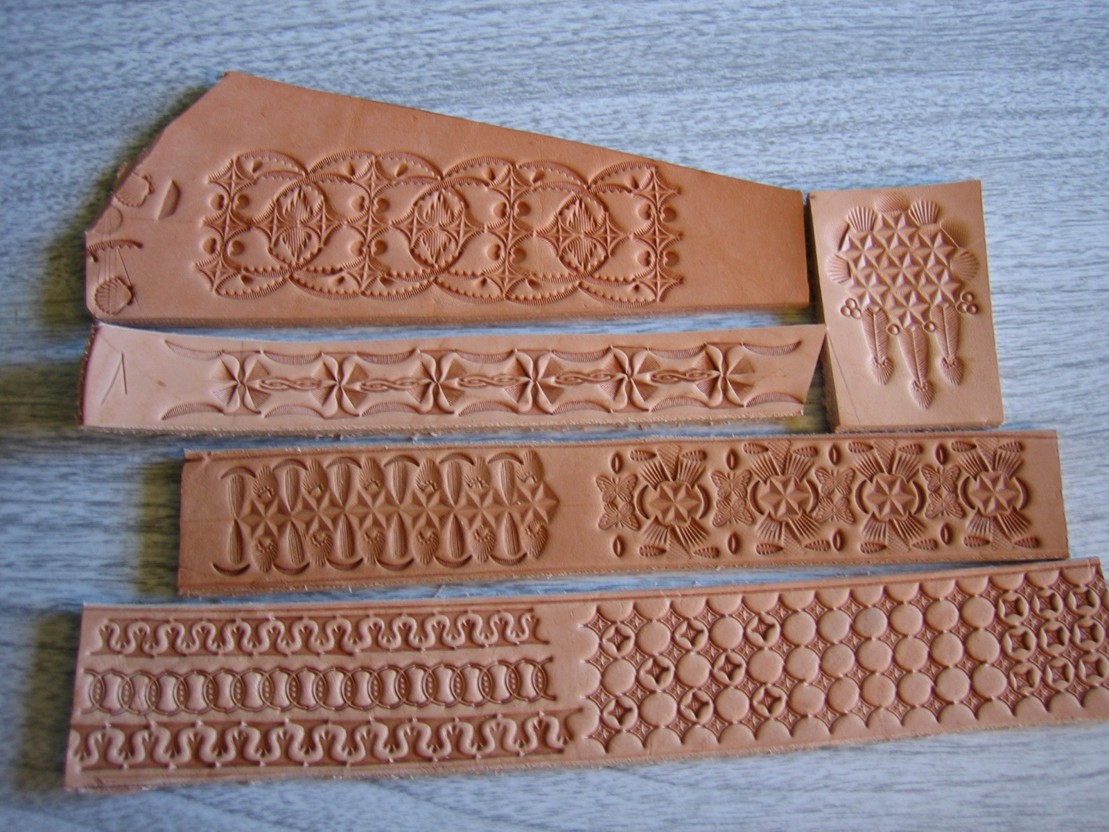 Leatherwork done by and photographed by Johan Potgieter, 2005